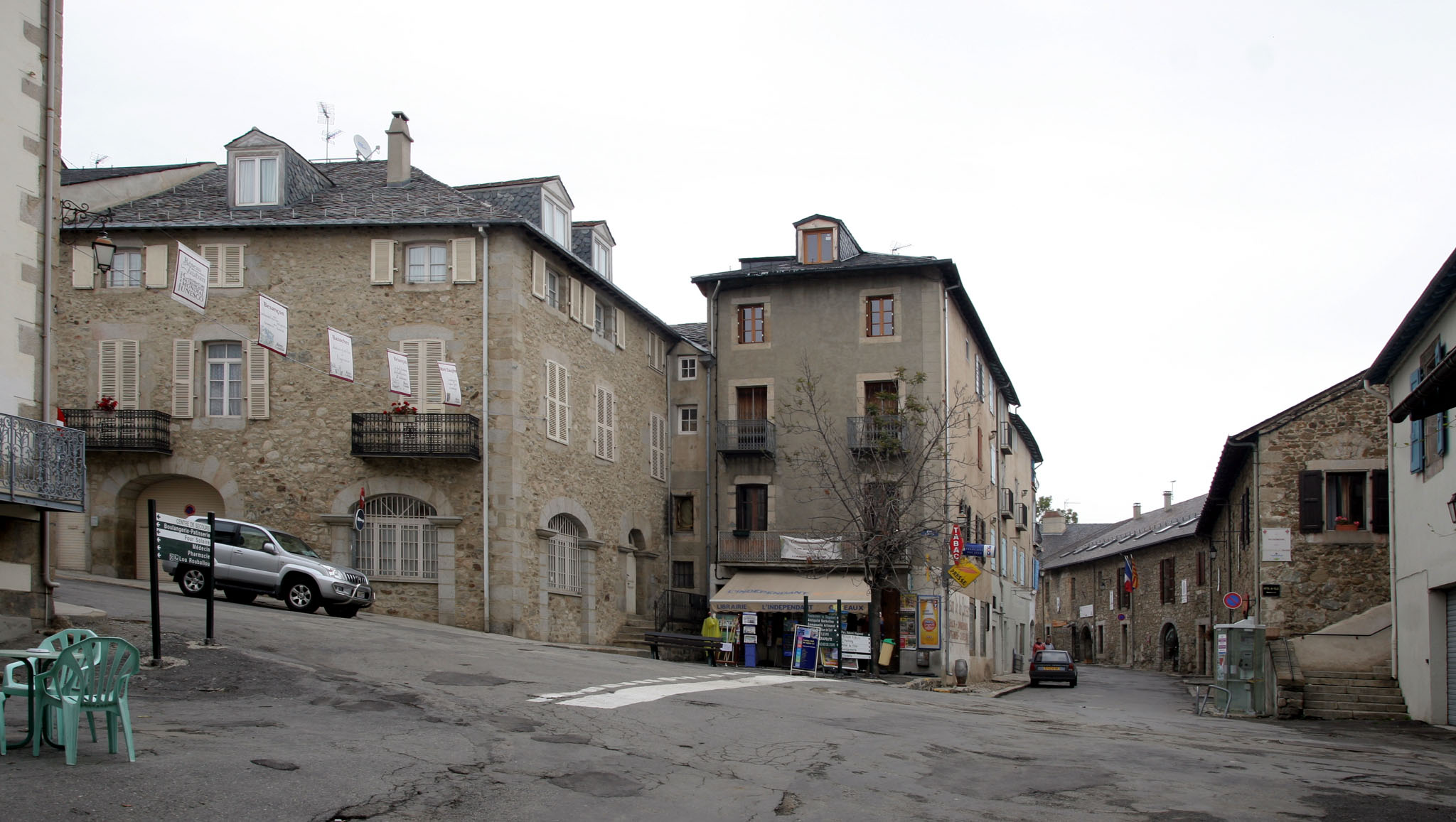 Mont-Louis in October 2008